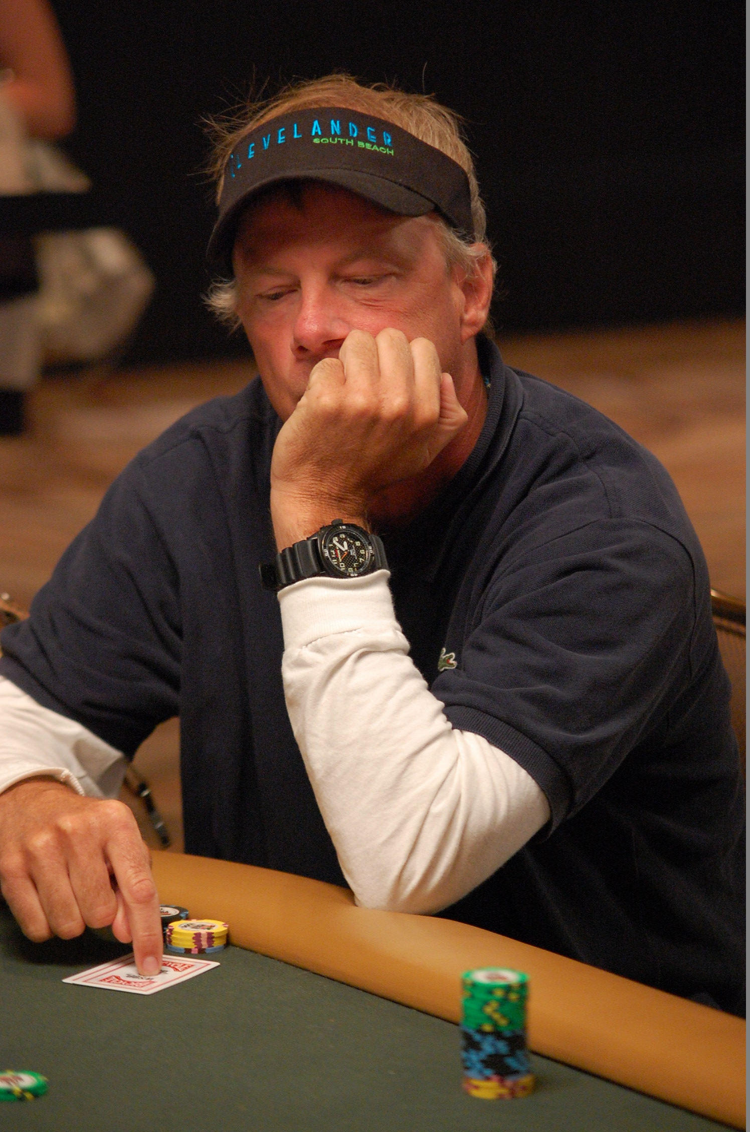 Image of poker player Fred Christenson